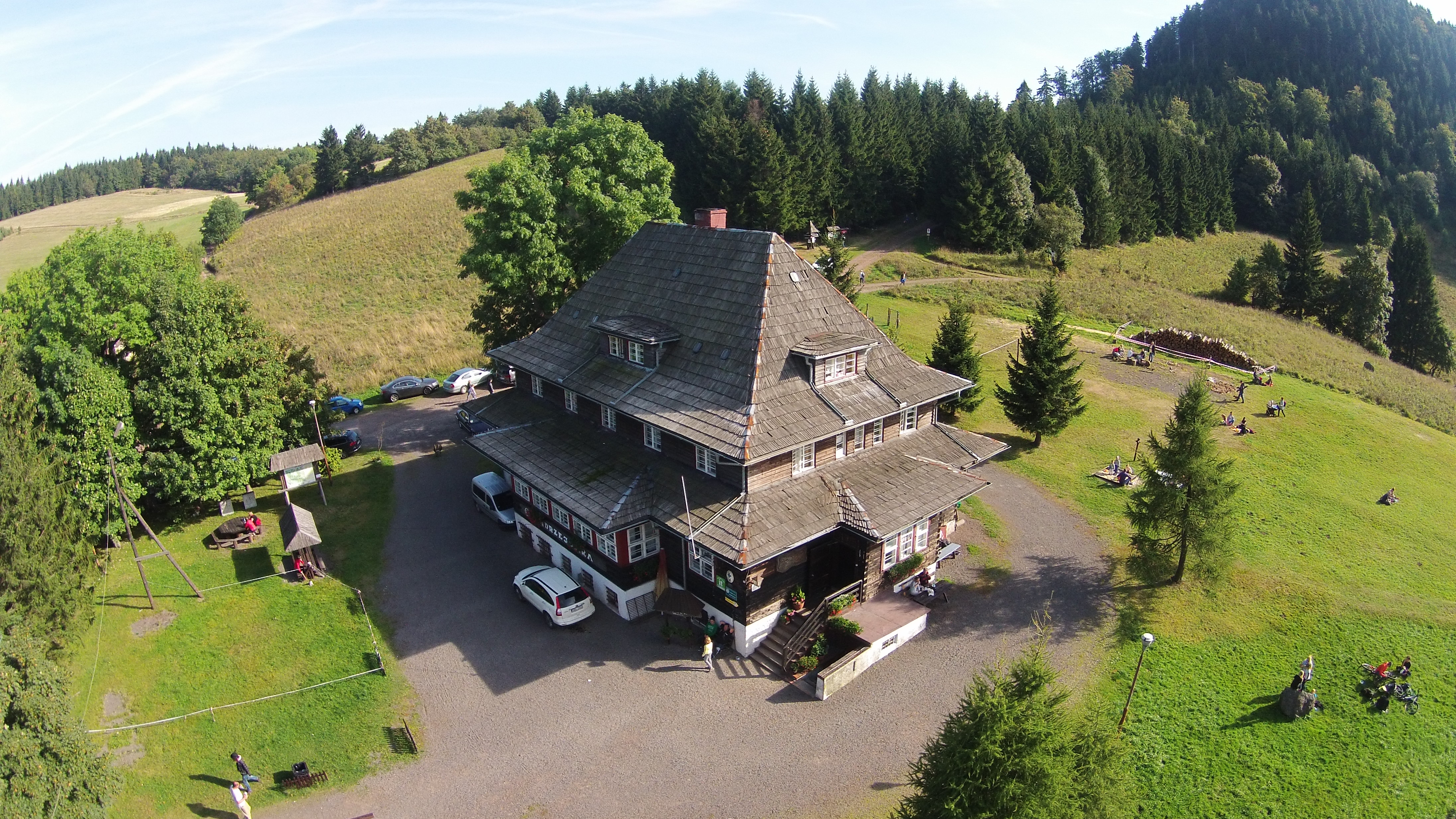 Aerial photograph of Andrzejówka hostel